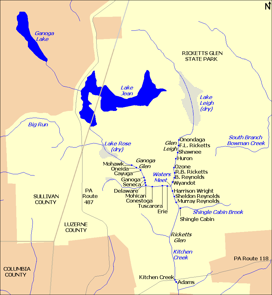 Detail Map of Ganoga Lake and Ricketts Glen State Park, Luzerne, Sullivan and Columbia Counties, Pennsylvania, USA. Shows waterfalls, creeks, lakes and highways mentioned in List of named waterfalls in Ricketts Glen State Park